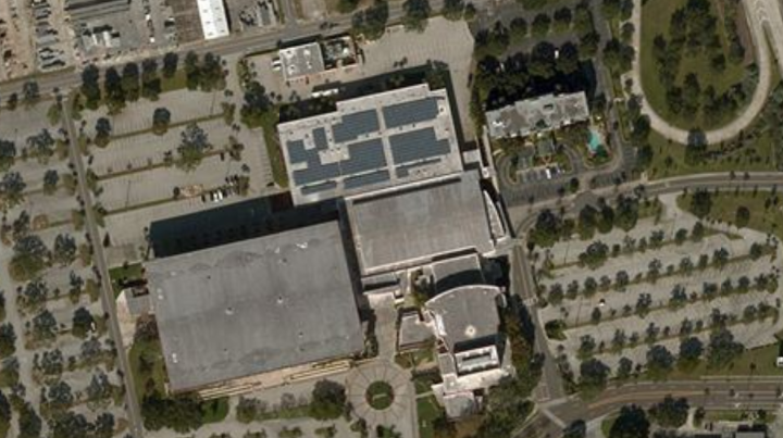 Satellite view